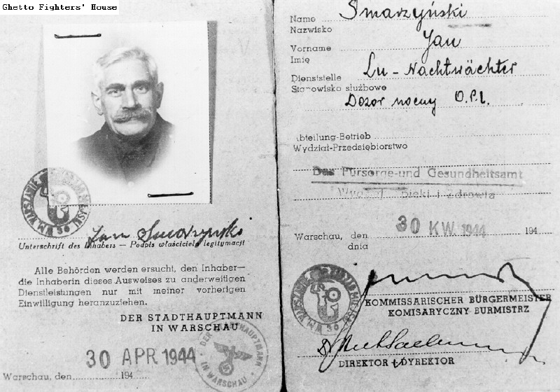 Forged "aryan" Kennkarte (ID document) of Jankiel Wiernik, Treblinka survivor.